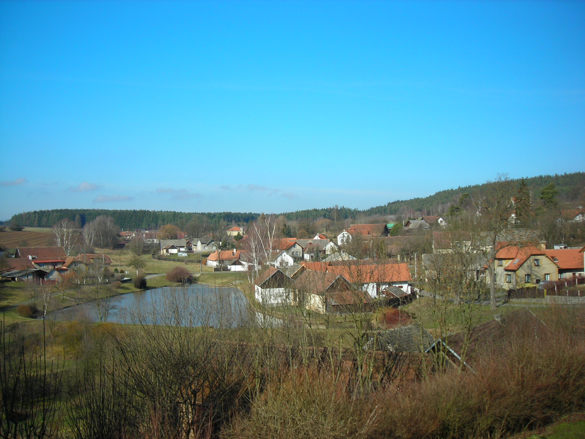 Sight of Blažejovice from a building of an past school.